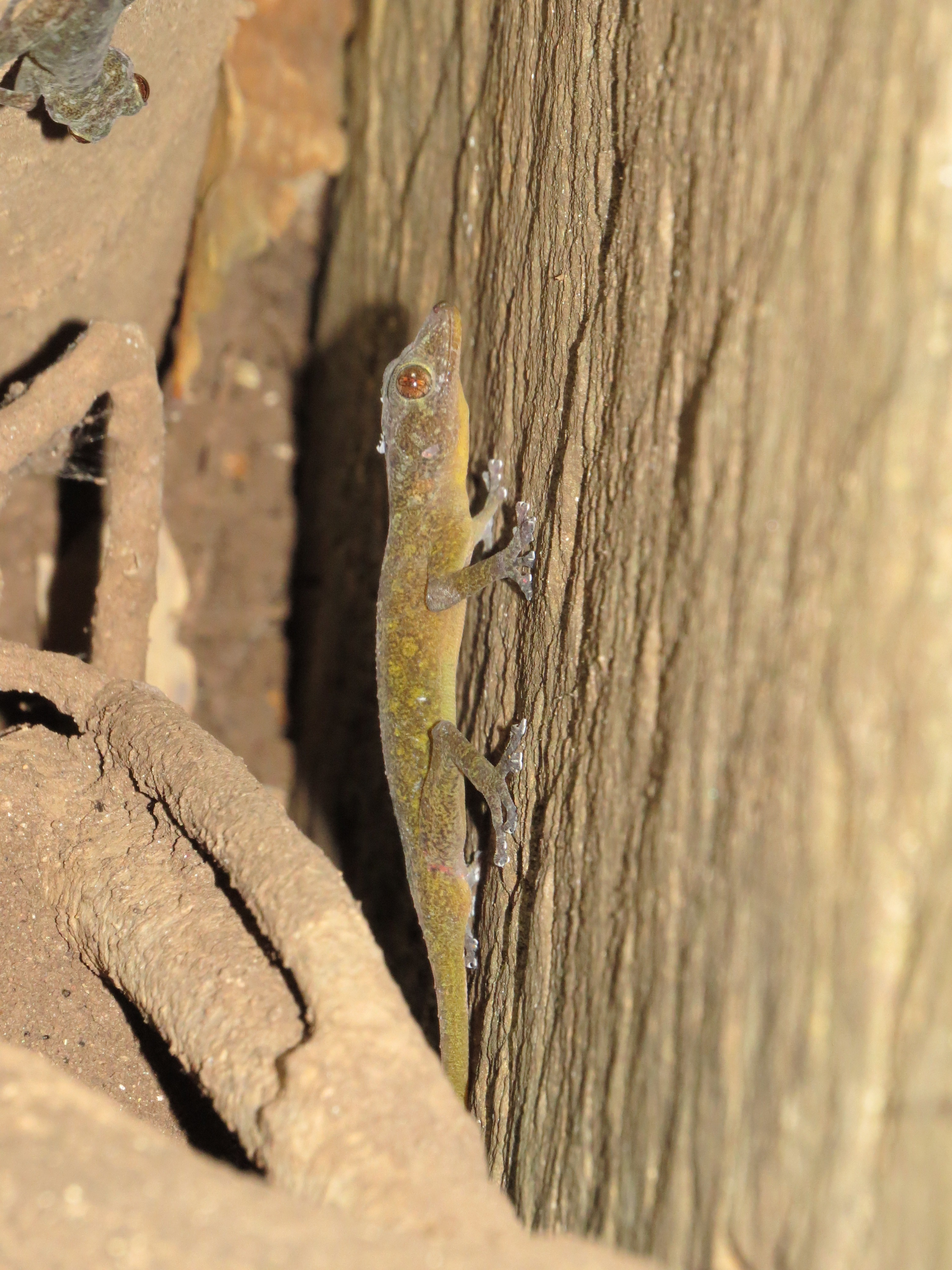 Golden gecko from Lammasingi, Visakhapatnam, Andhra Pradesh